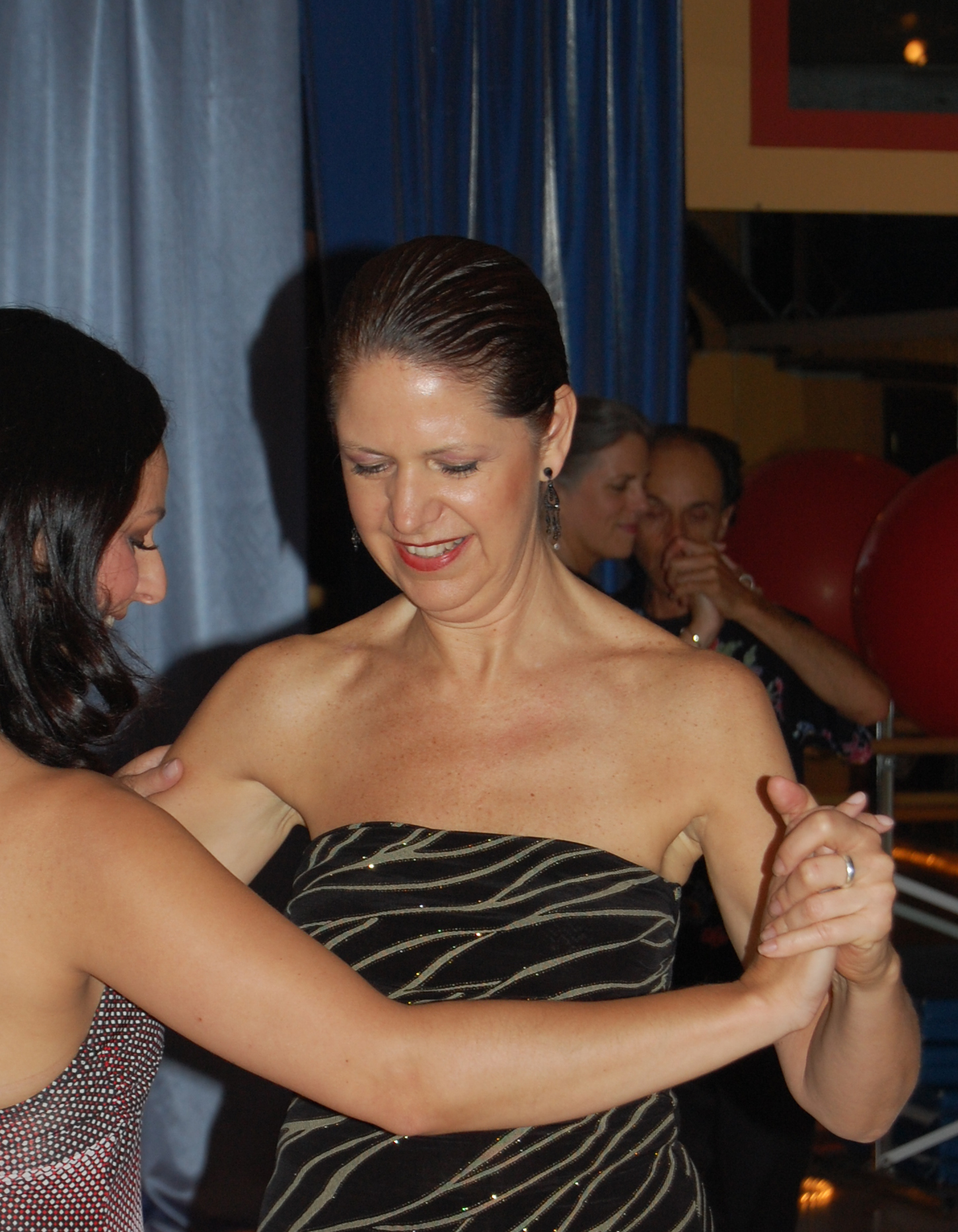 Christy Cote, American dance teacher in Santa Cruz Milonga and class.